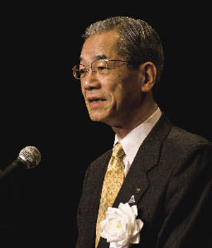 Yoshinobu Ishikawa, Governor of Shizuoka Prefecture, addressed at the forum at Shizuoka Prefectural Gender Equality Center in Shizuoka City, Shizuoka Prefecture on February 2, 2008.